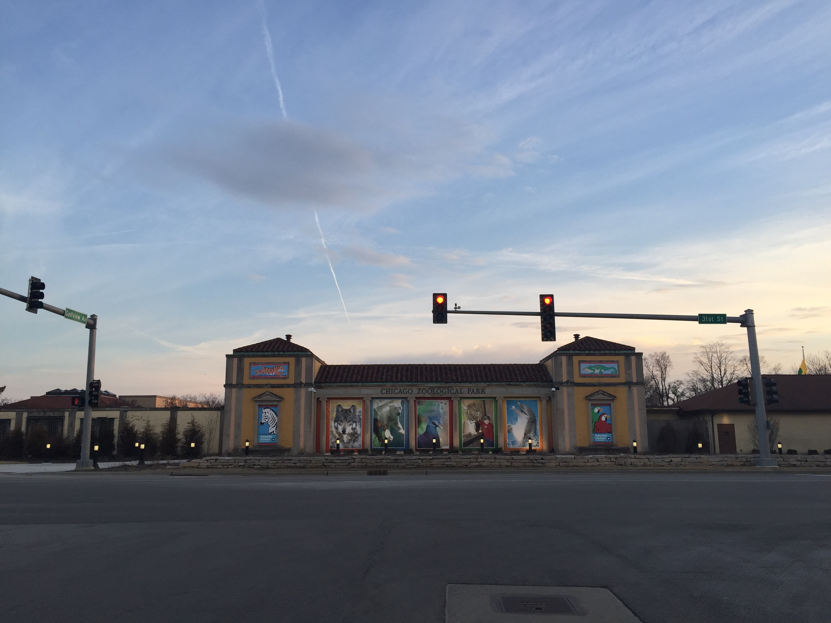 Remodeled North Entrance at the Brookfield Zoo